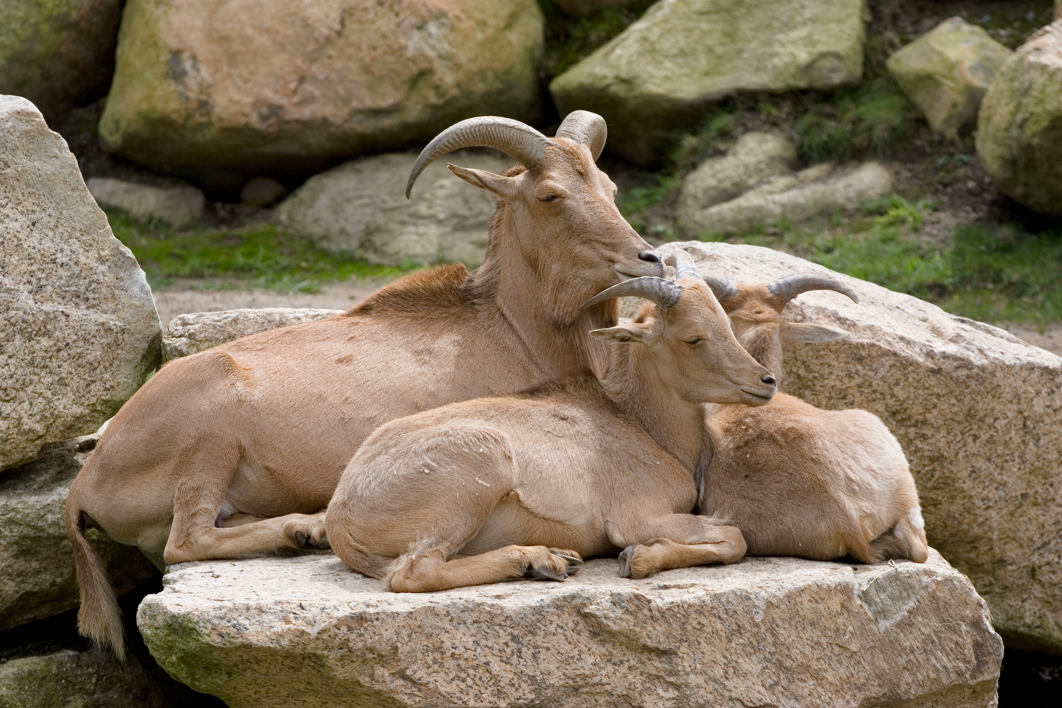 An adult Barbary Sheep with two young at Roger Williams Park Zoo, USA.